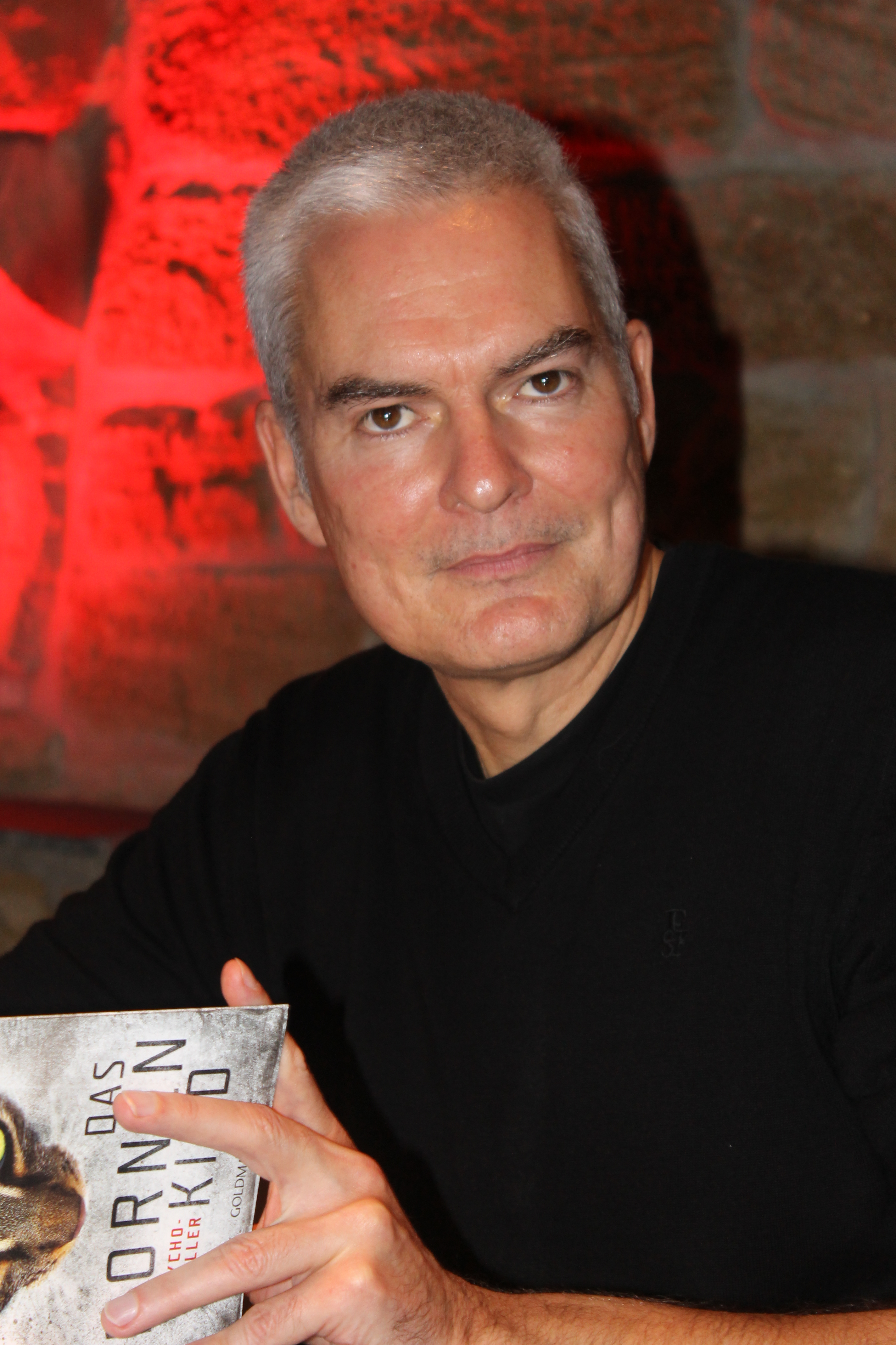 German writer Max Bentow at a reading in Goslar